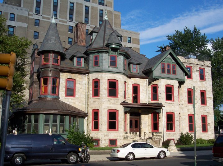 Drexel University Main Campus building Ross Commons. Photo taken in 2006 by ImGz.